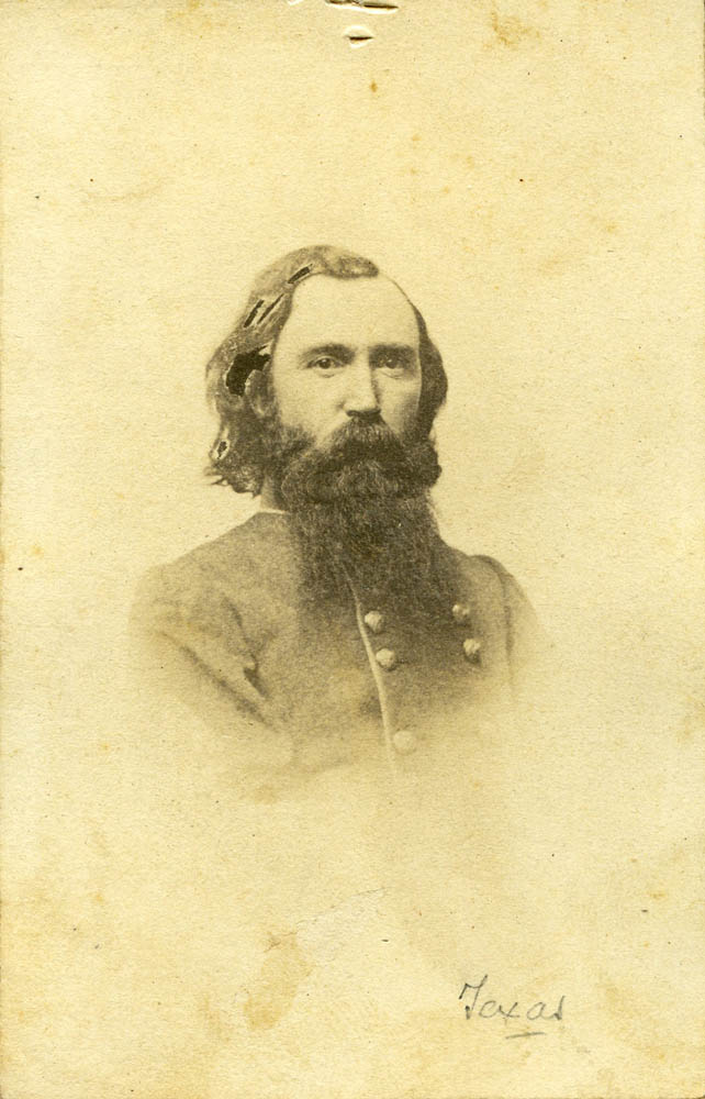 Carte-de-Visite of Colonel Archibald Dobbins, Commander 1st Arkansas Cavalry Regiment. Trans-Mississippi Theater, Virtual Museum, Photo Archive